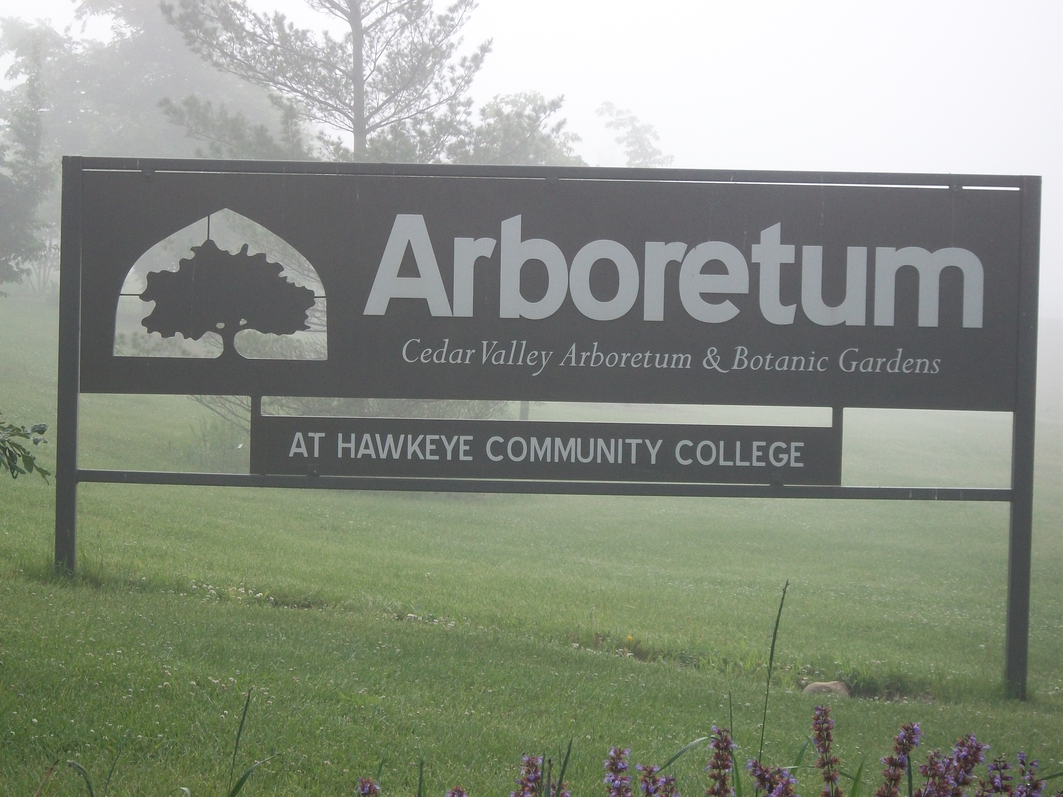 The Arboretum is open April through October, dawn to dusk, and admission is free to the public.